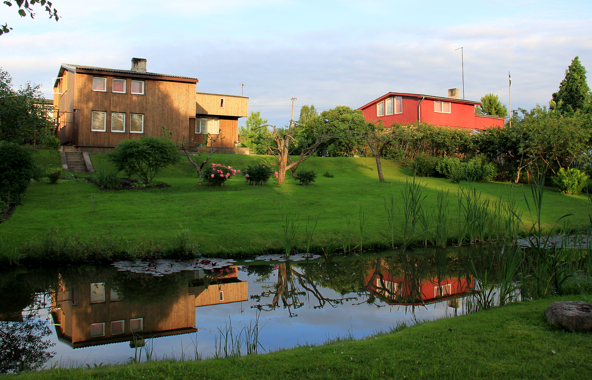 Vissi village in Tartumaa